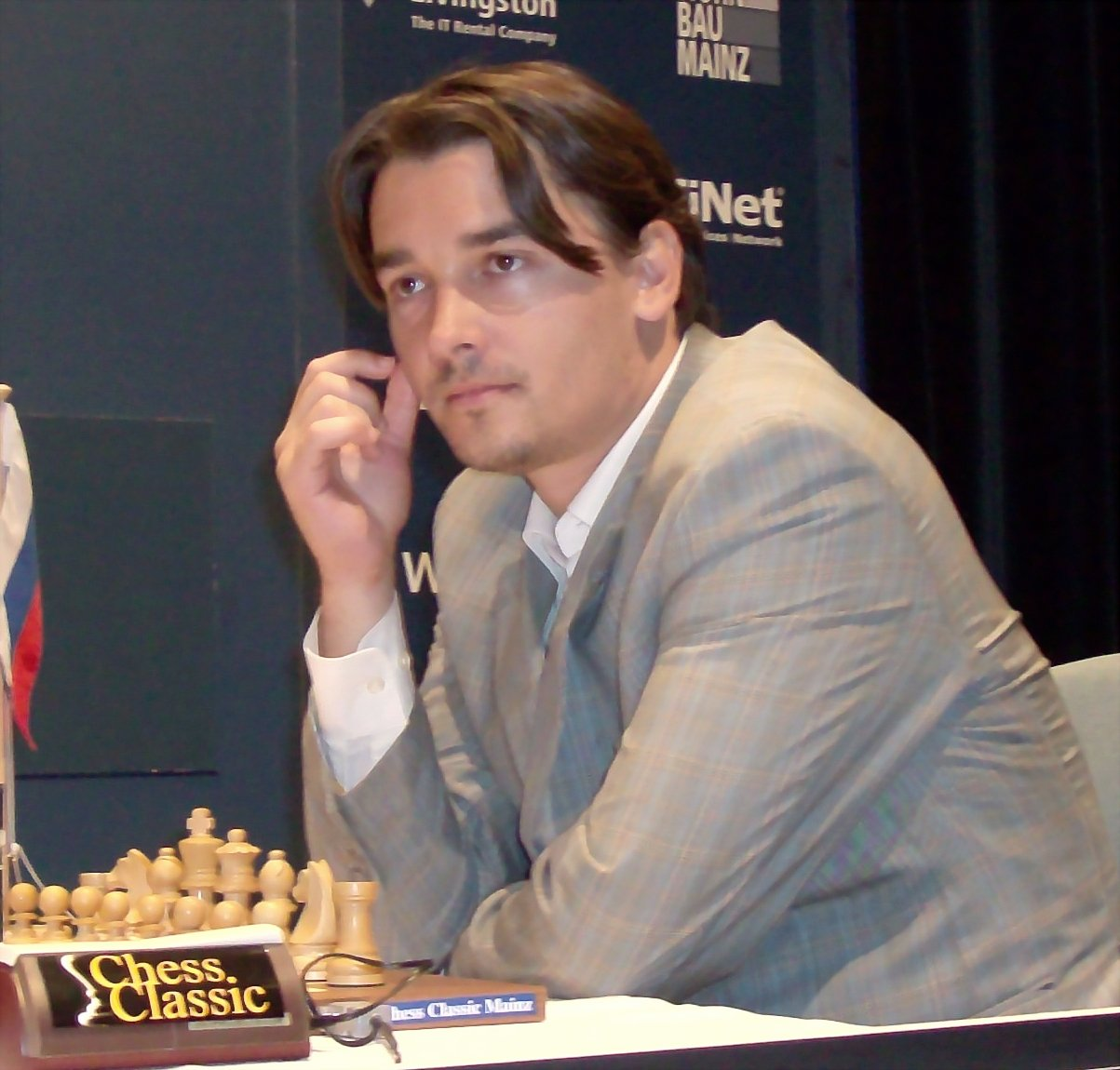 Alexander Morozevich at the Chess Classics 2008